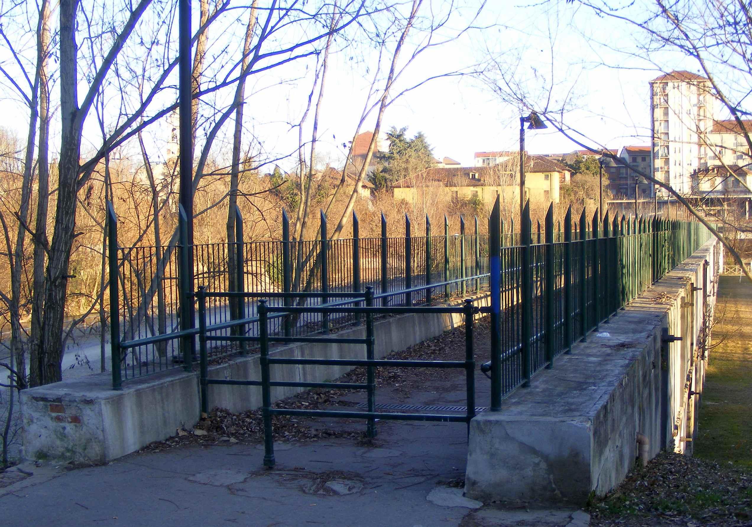 Ceronda canal (right branch) in Turin (year 2011, Italy) Piemontèis: Ël canal d'la Srunda a Turin